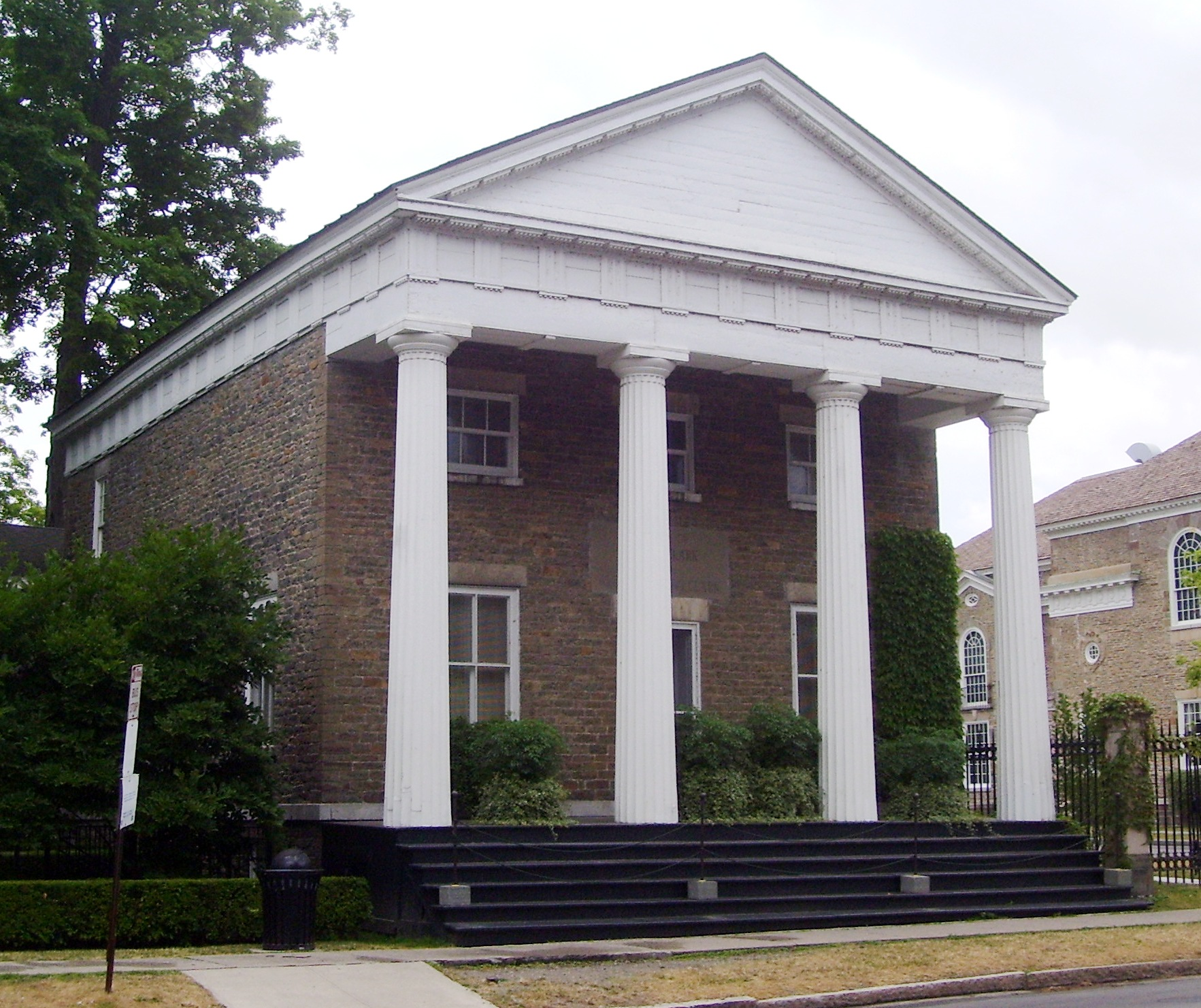 The Otsego County Bank Building at 19 Main Street between River and Fair Street in Cooperstown, New York, was built in 1831 in the Greek Revival style. It is a contributing property to the Cooperstown Historic District. (Source: [1])